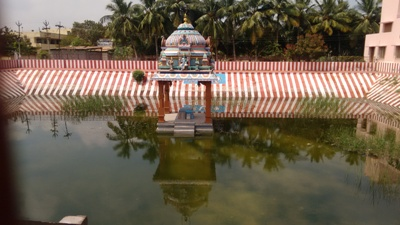 Thanthondrimalaivenkatramanaswamytemple தாந்தோன்றிமலை கல்யாணவெங்கடரமணசுவாமி கோயில்